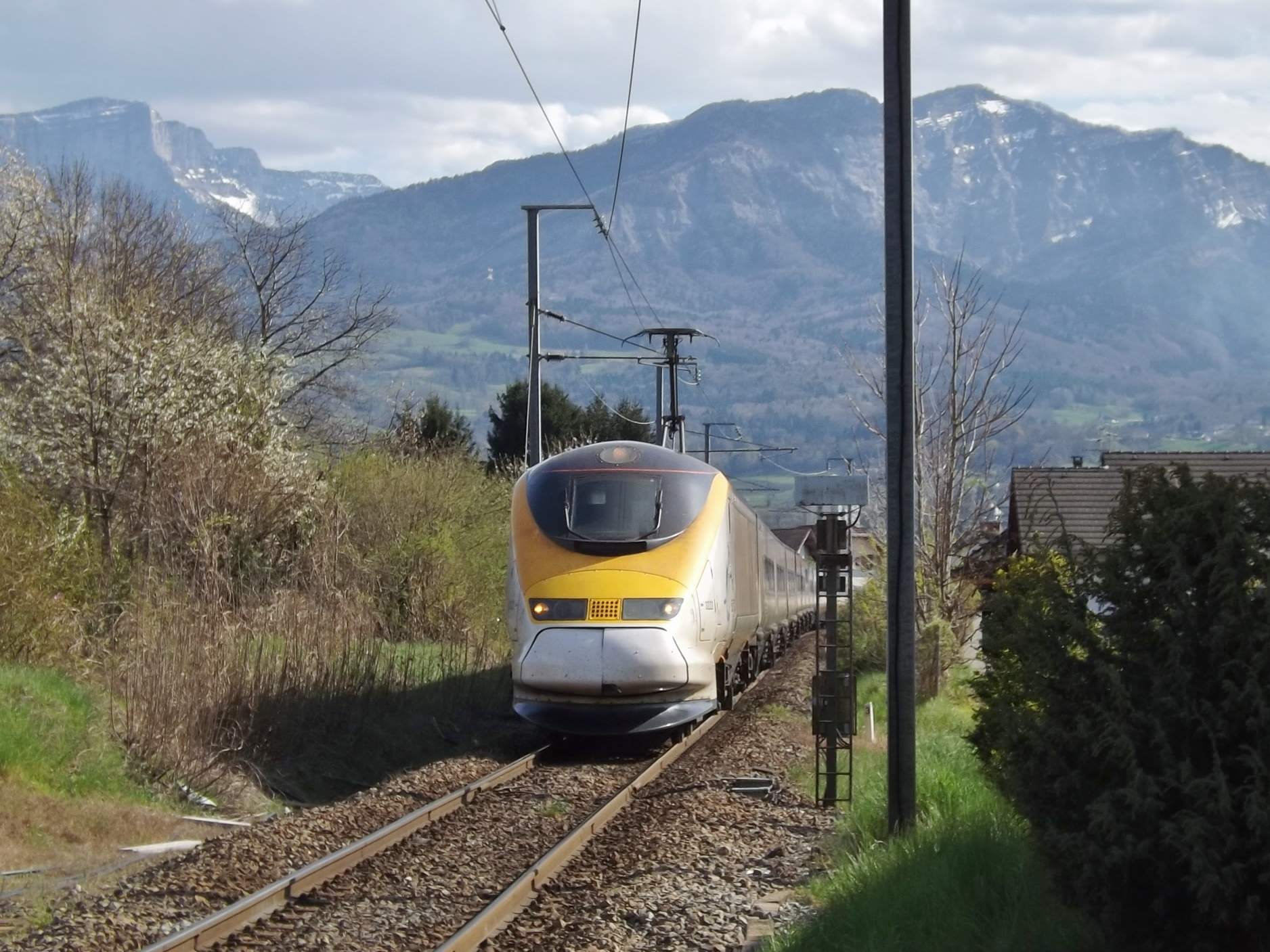 Sight of the last 'Winter' Eurostar high speed train coming from London and bound for Moûtiers, arriving in the French Alps at Chambéry in Savoie. Return journey by night.